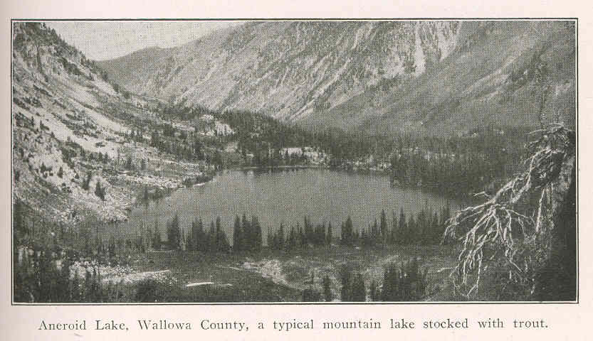 Aneroid Lake, Wallowa County, a typical mountain lake stocked with trout Subject: Lakes--Oregon, Aneroid Lake (Oregon) Geographic Subject: United States--Oregon--Aneroid Lake Tag: Limnology